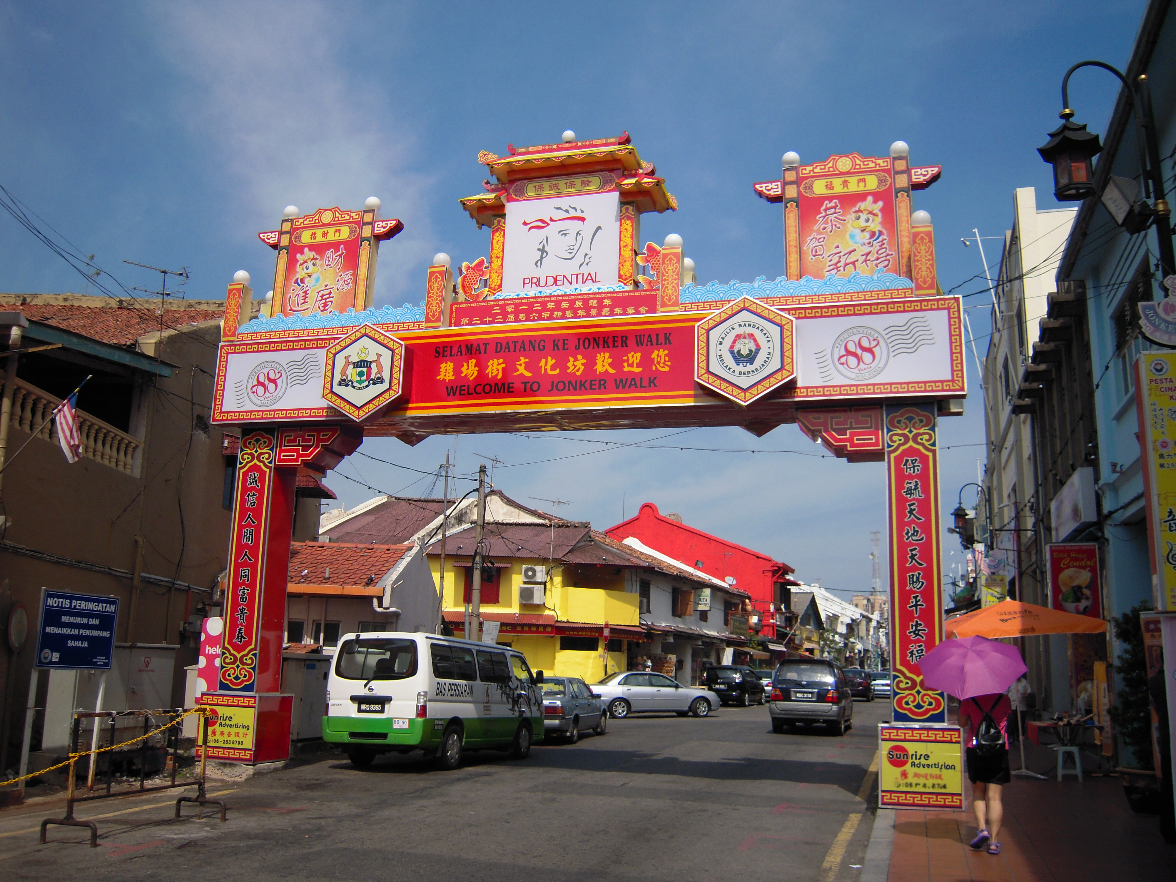 Jonker Street in Malacca